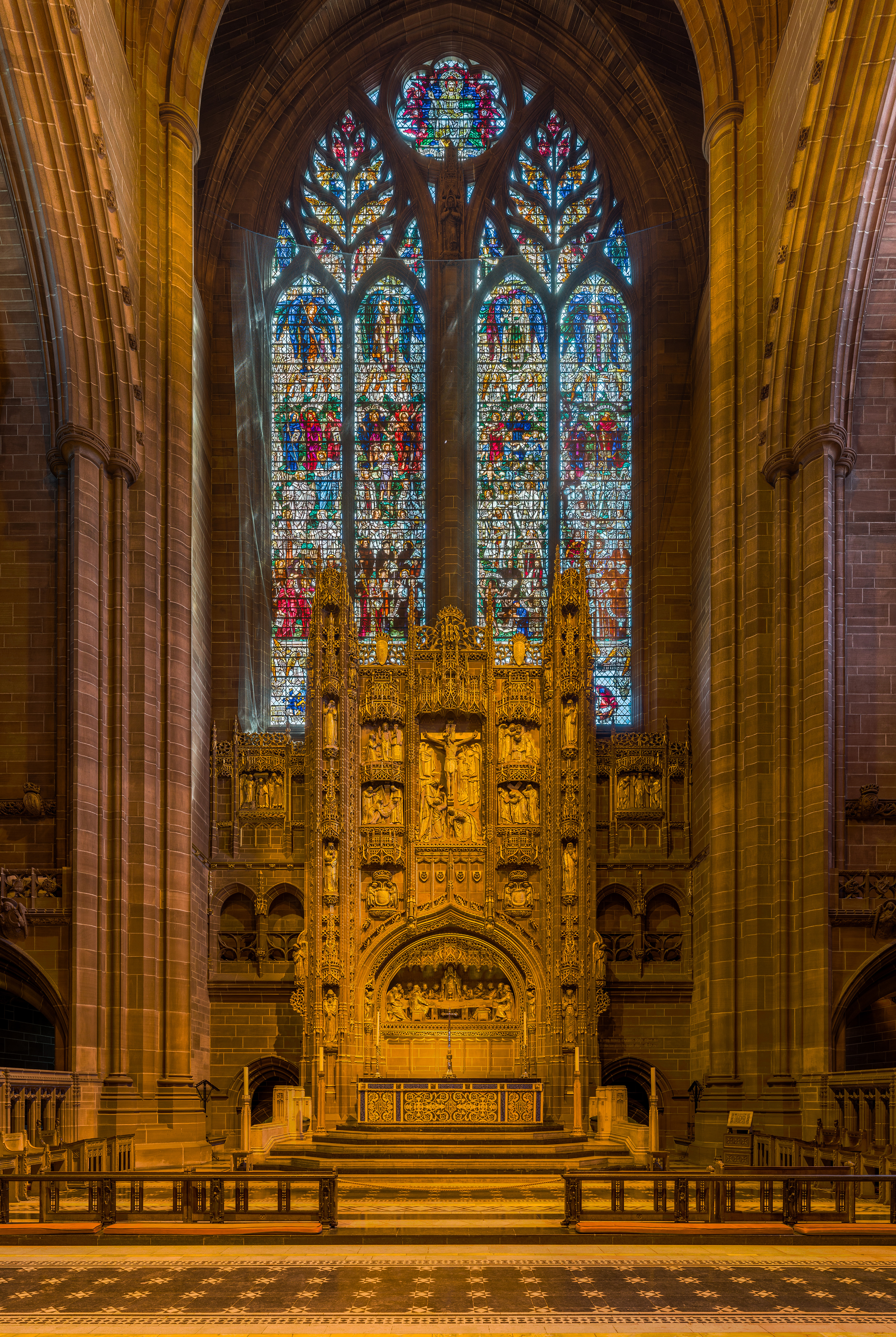 The high altar of Liverpool Anglican Cathedral in Liverpool, England.